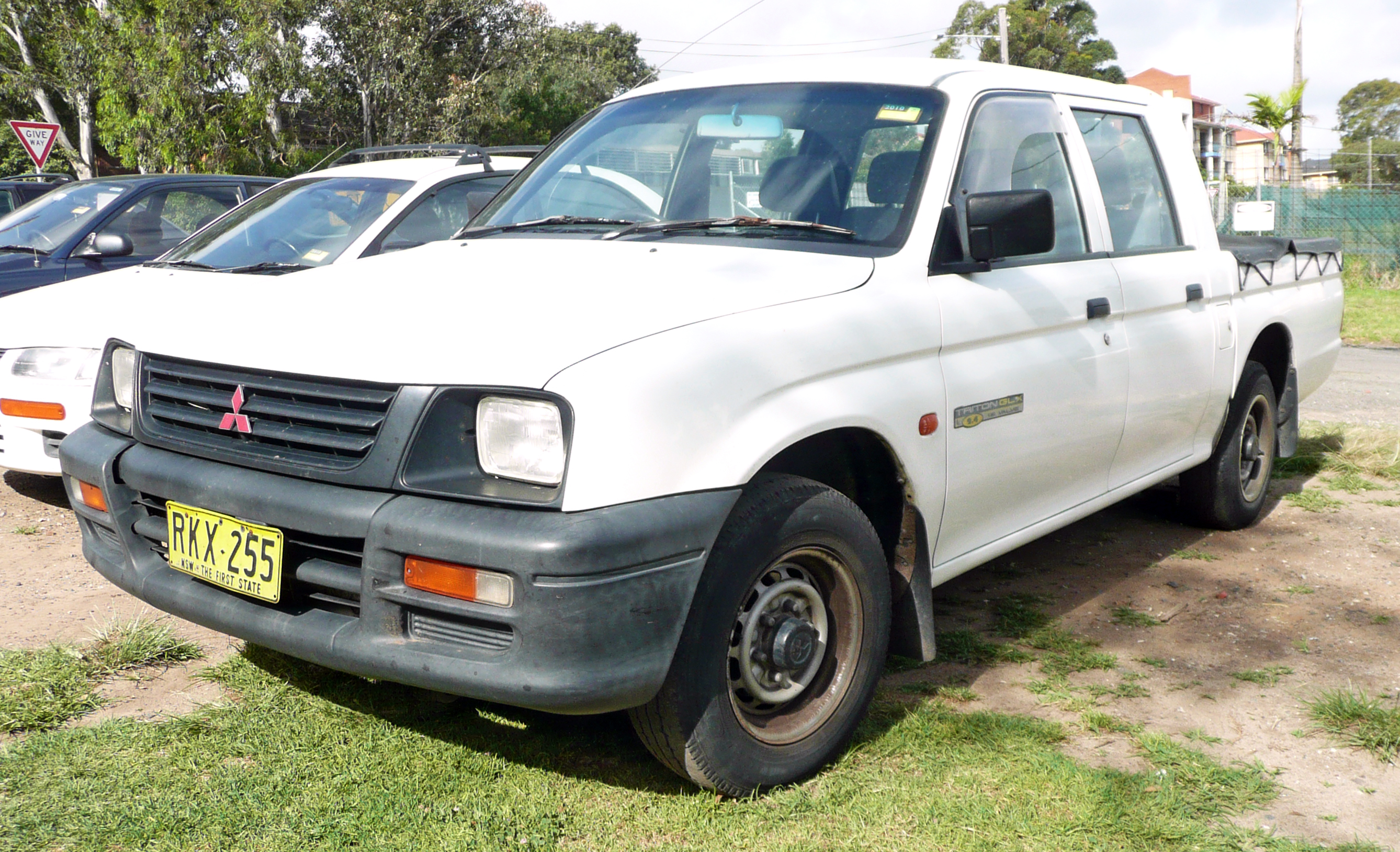 1996–2001 Mitsubishi Triton (MK) GLX 4-door utility. Photographed in Sutherland, New South Wales, Australia.